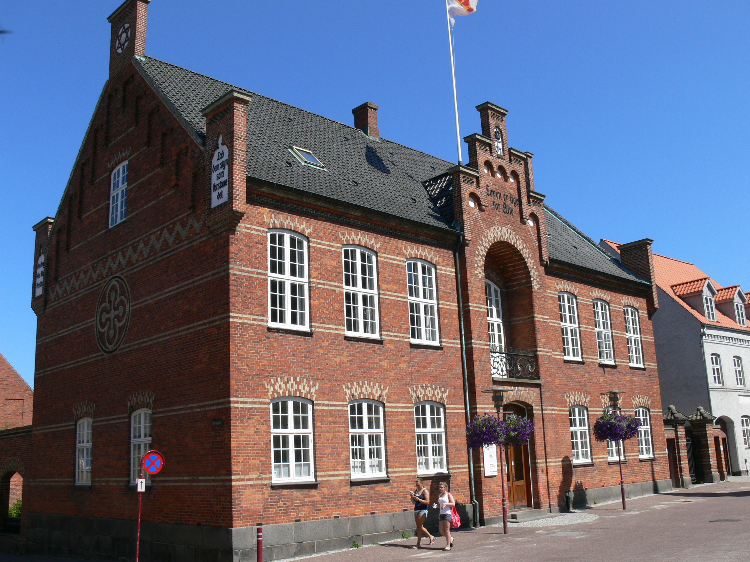 Stubbekøbing ( Falster ). Town hall.